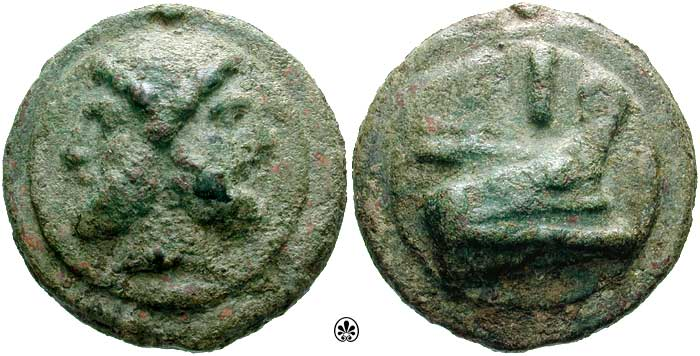 Anonymous (Rome). Circa 240-225 BC. Æ Aes Grave As (259.53 g). Bearded head of Janus, I horizontally below; on a raised disk Prow of galley right; I above; all on a raised disk. Crawford 35/1; Vecchi, ICC 74; Haeberlin pl. 12-13